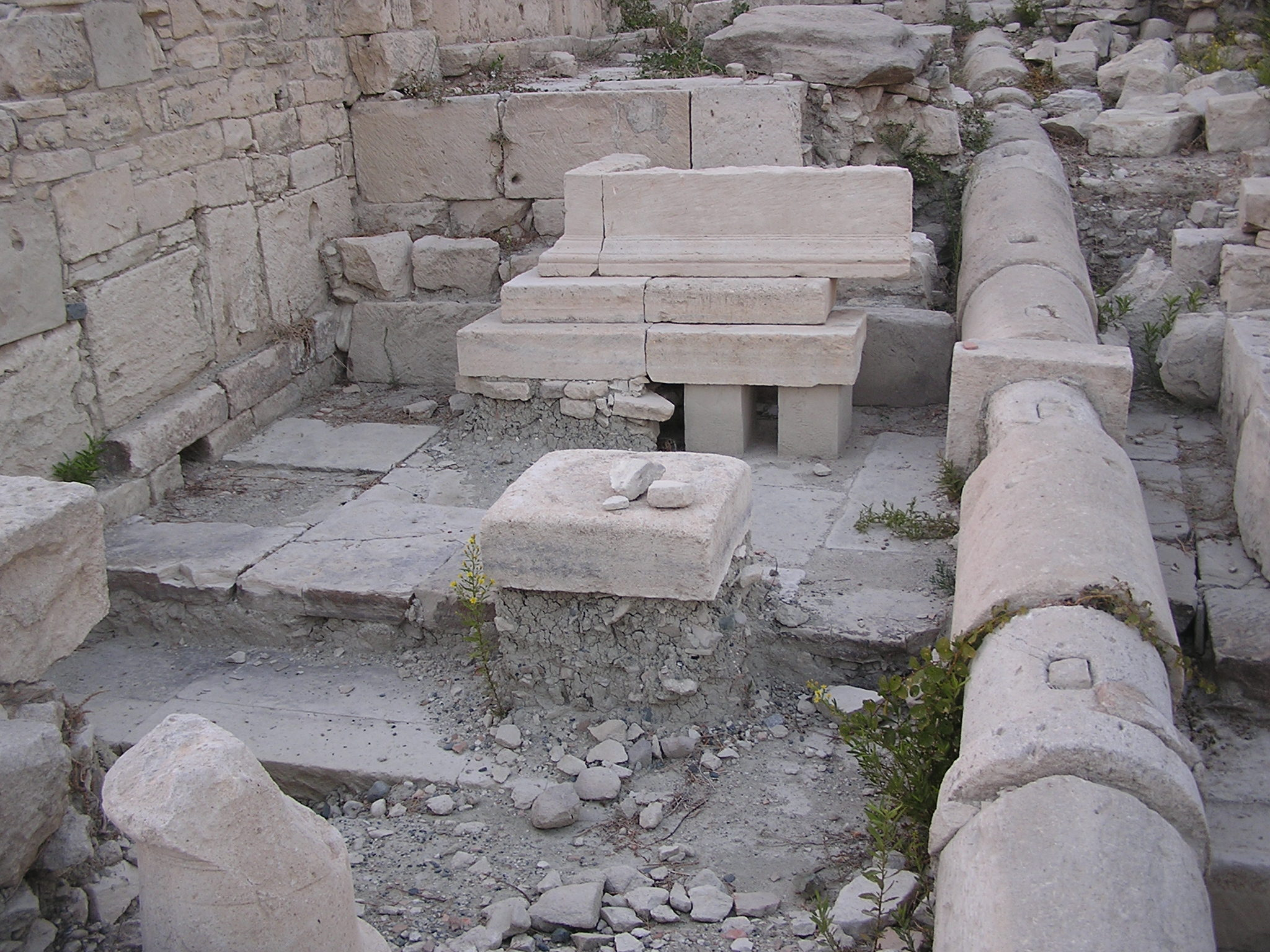 Taken in ancient Amathus (Cyprus). October 2005